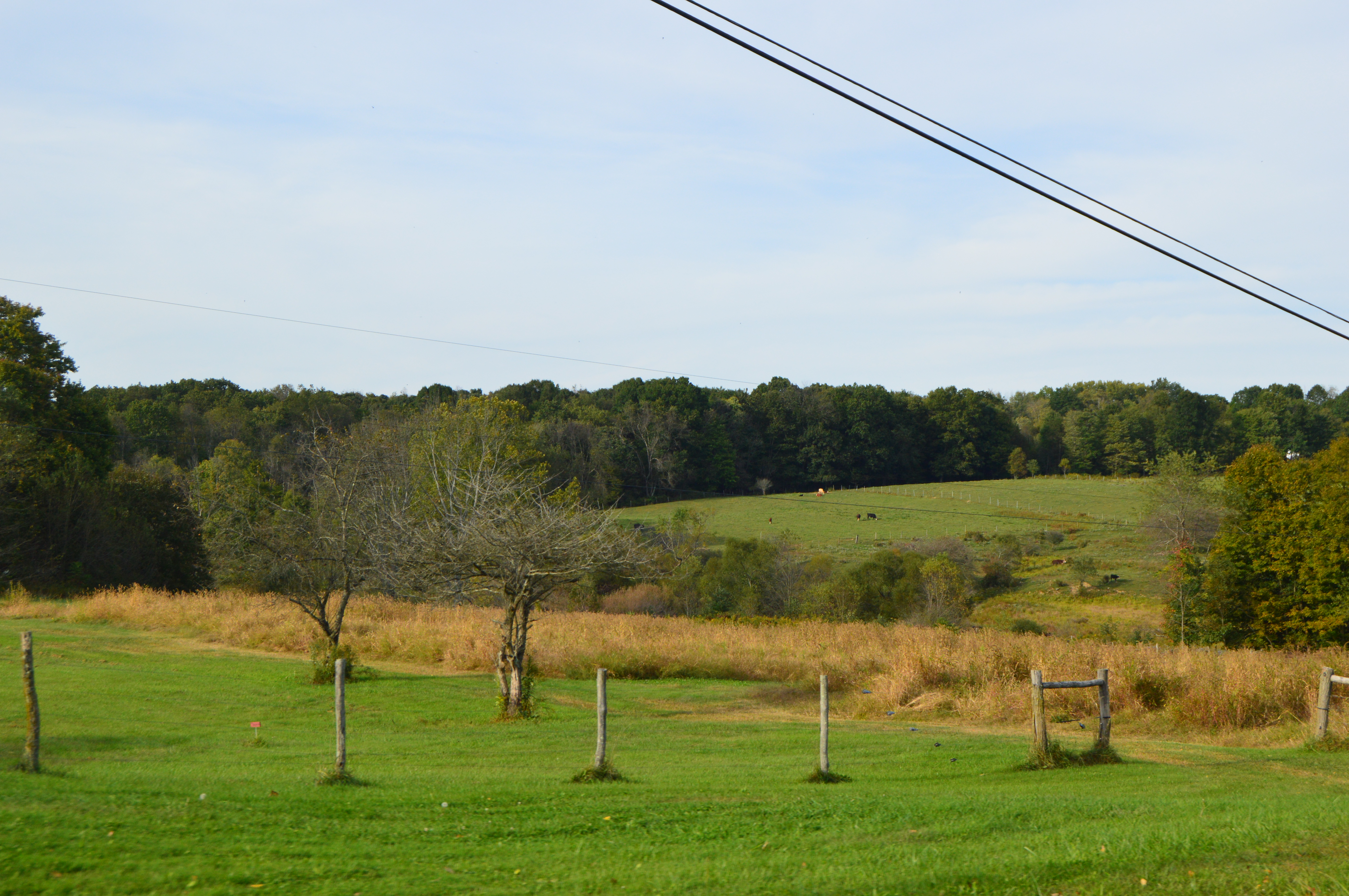 Agricultural scene along Petersburg Road at Petersburg in southwestern Sandy Creek Township, Mercer County, Pennsylvania, United States.